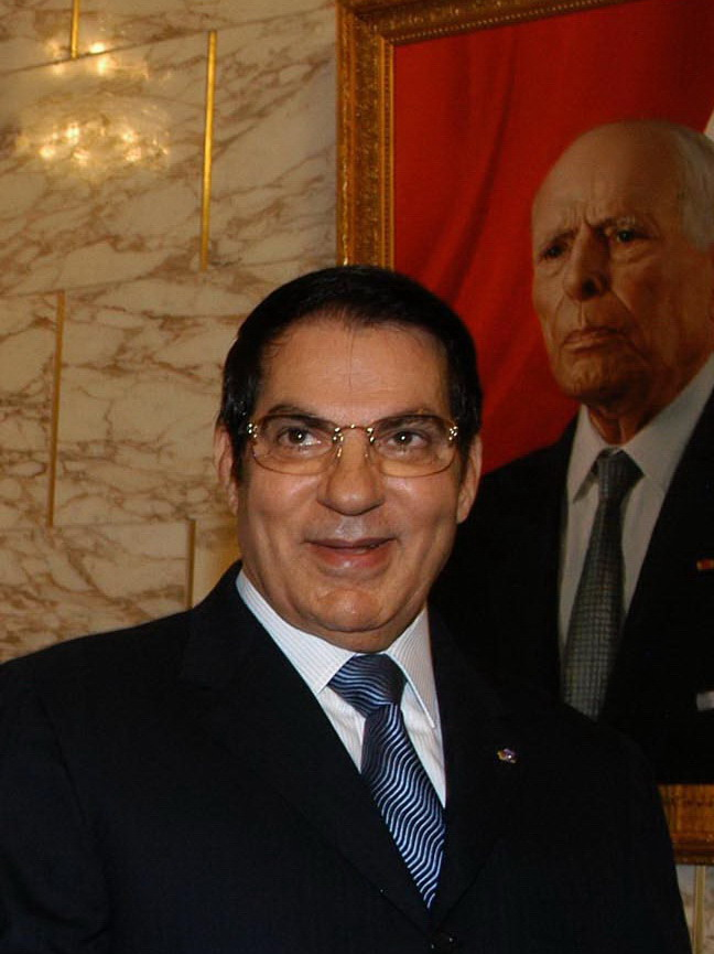 Zine El Abidine Ben Ali, President of Tunisia